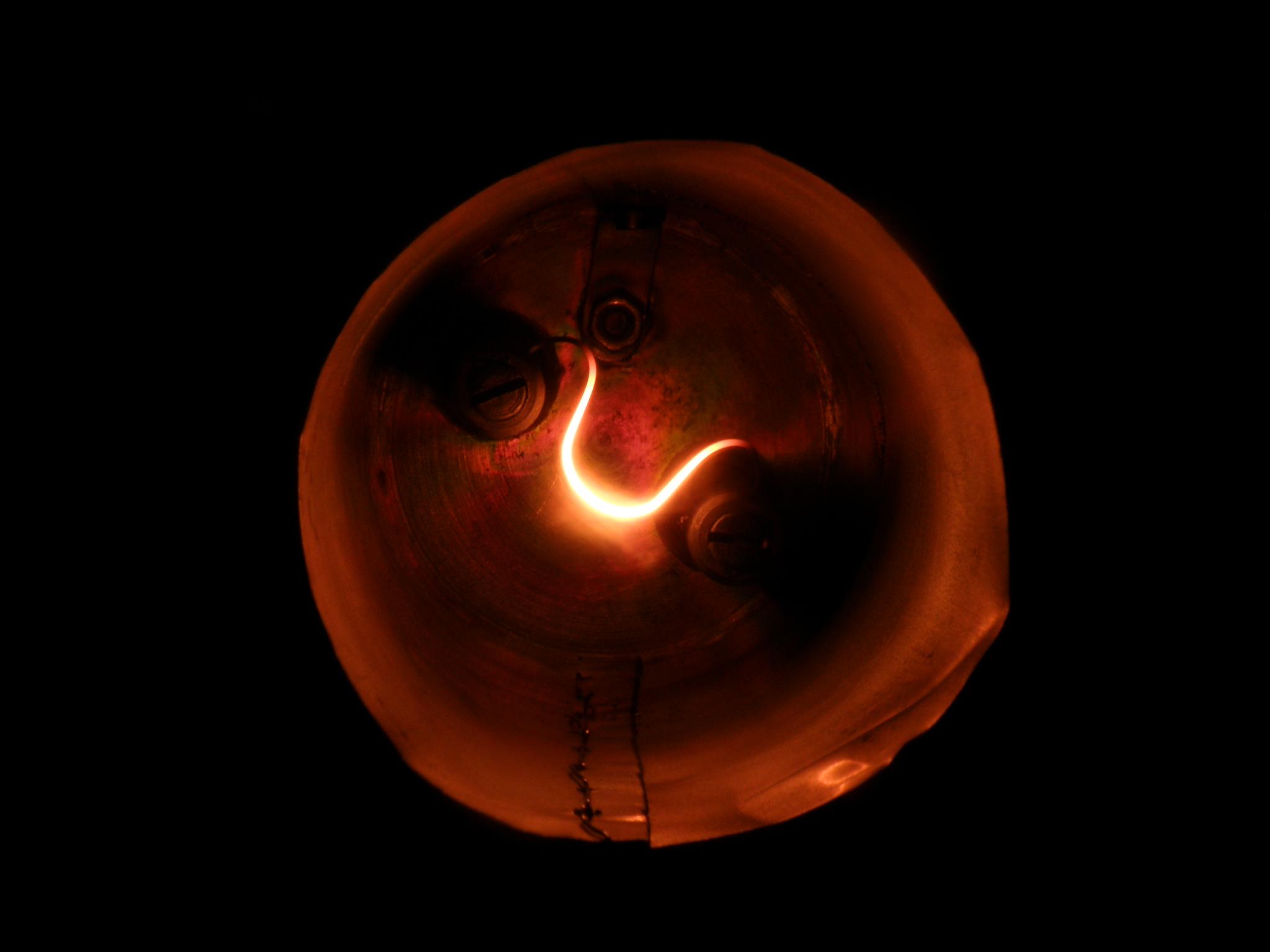 Hot cathode